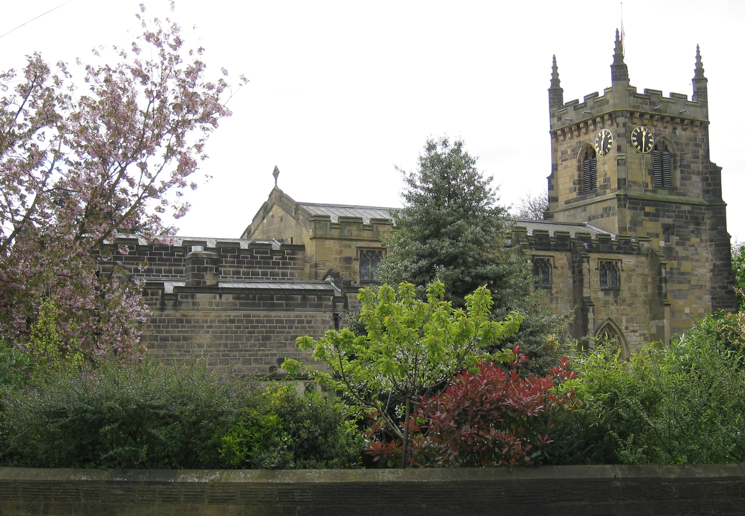 Saint Oswald's Church, Methley. View from the Northeast. A639, Church Side.